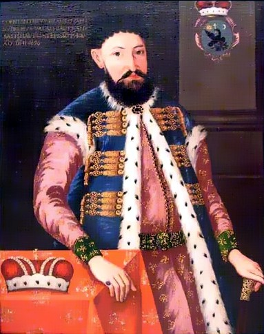 Constantin Brâncoveanu (* 1654 - † 26. August 1714), Prince of Wallachia